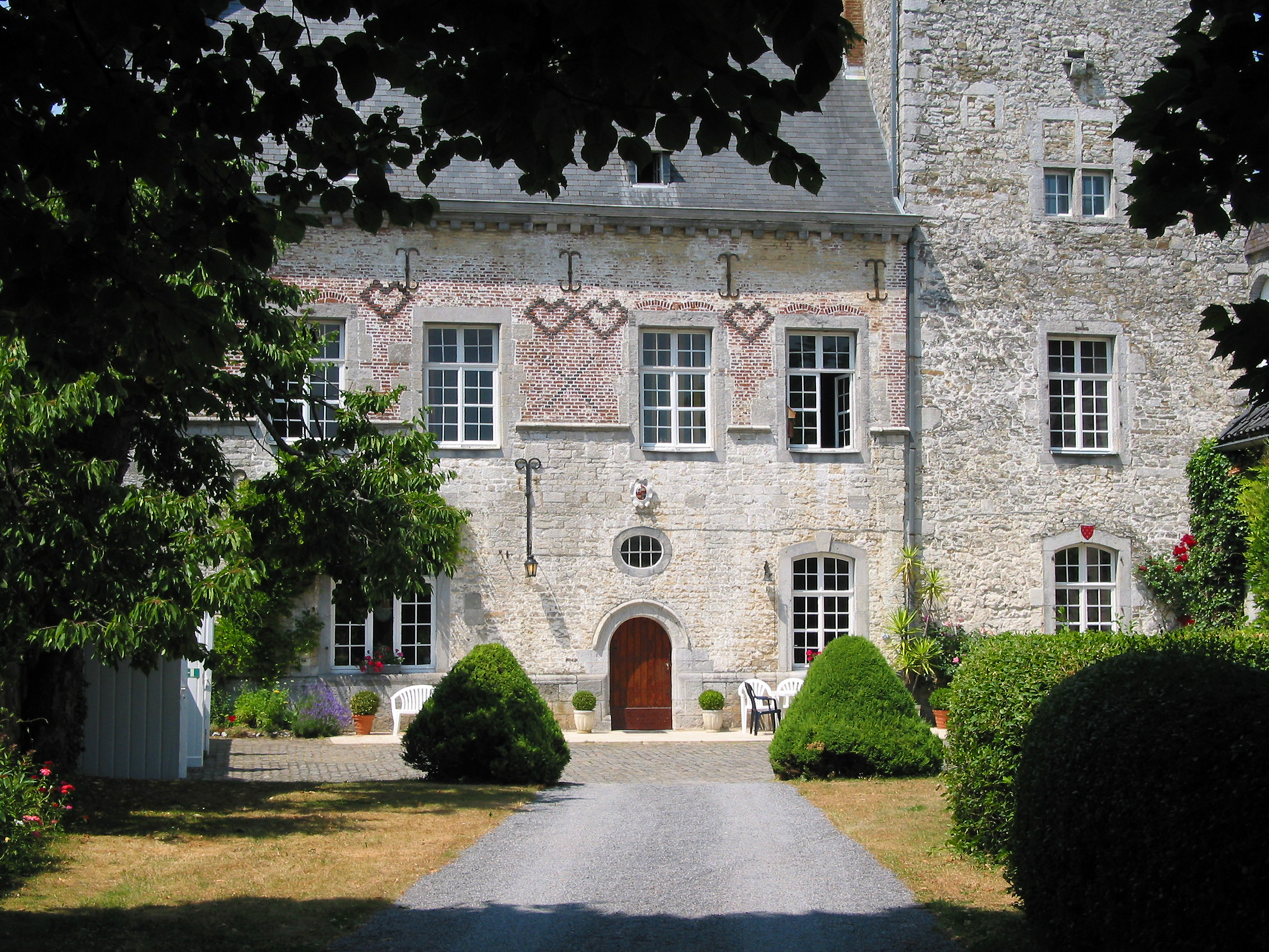 Villers-le-Temple (Belgium), old tower house with tower (XIVth century) and main building (XVIth century).